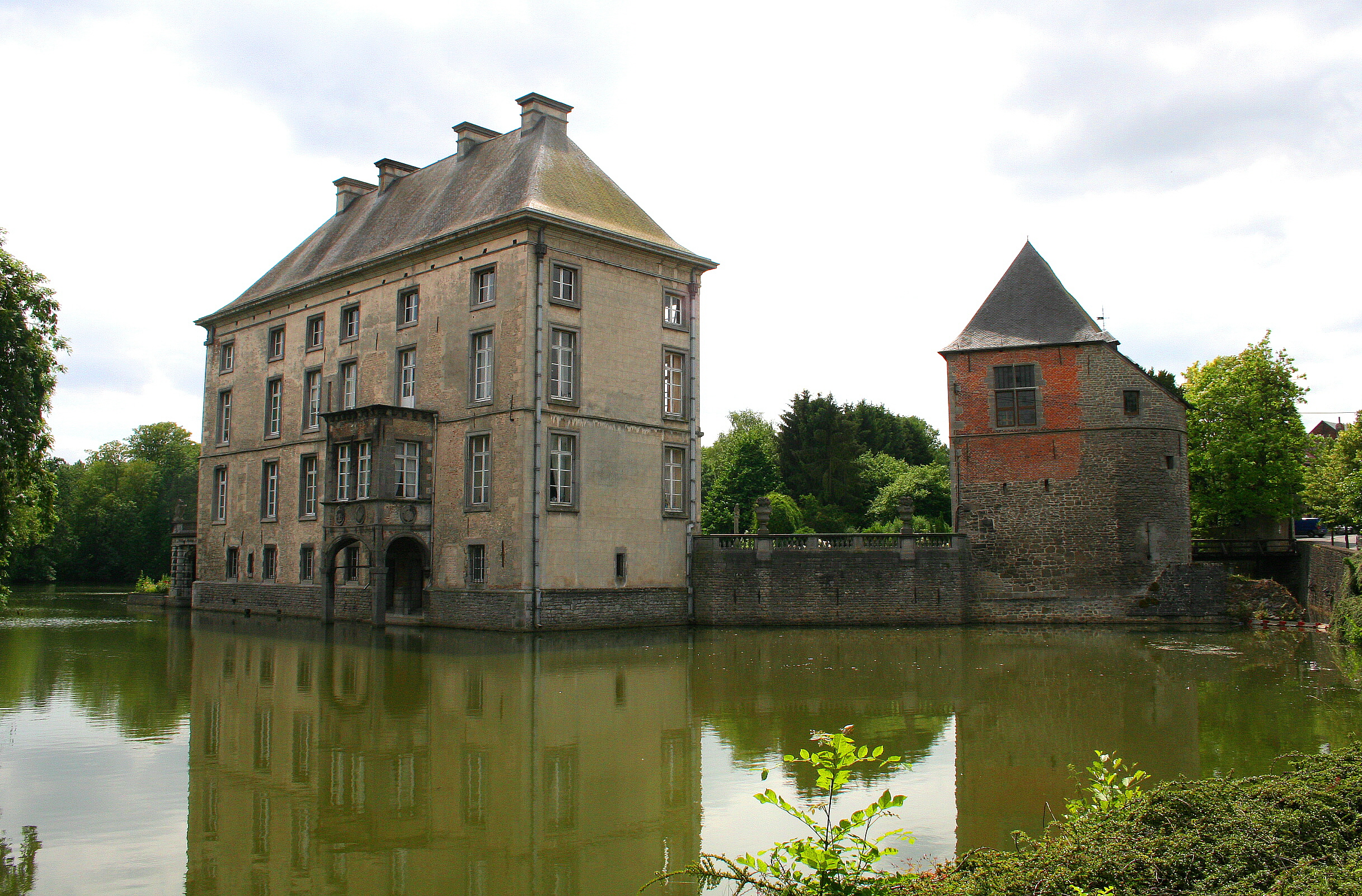 Feluy (Belgium), the moats, the residential main buiding and the fortified wing (XIV/XVIIIth centuries).